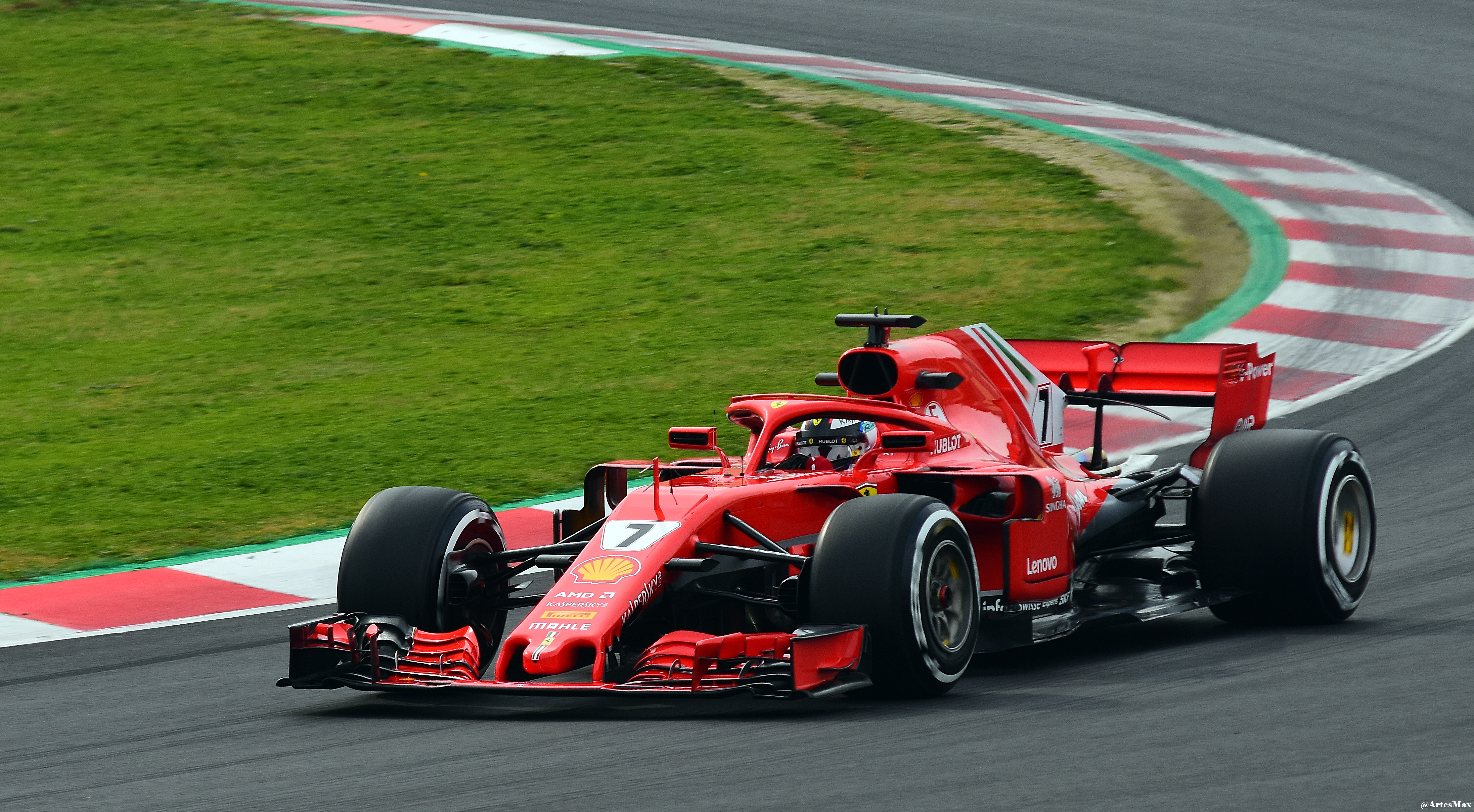 Kimi Räikkönen testing the Ferrari SF71H during pre-season testing in Barcelona.